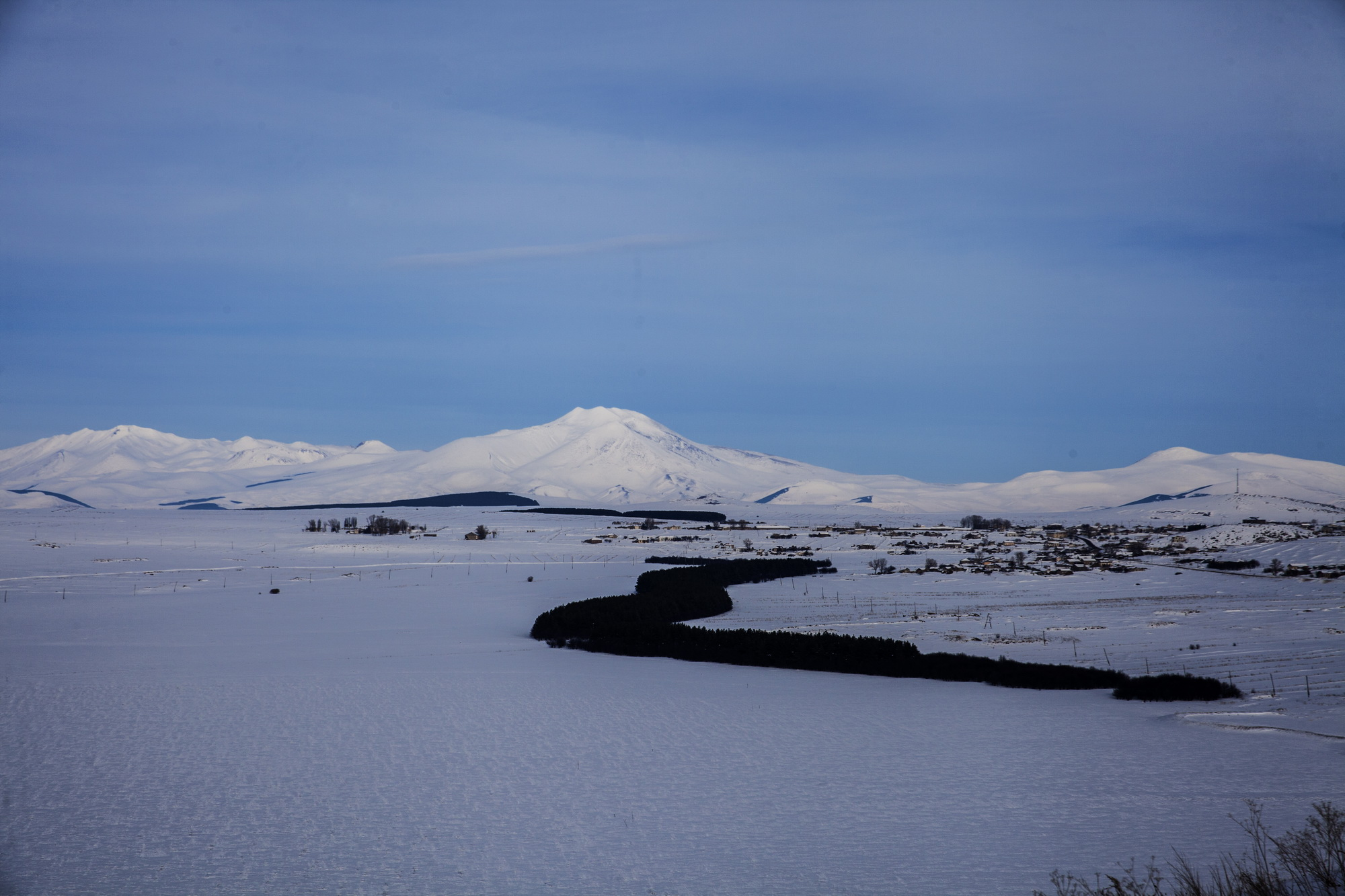 Javakheti Protected Areas was established in 2011. It includes Javakheti National Park, Kartsakhi Managed Reserve, Sulda Managed Reserve, Khanchali Managed Reserve, Bugdasheni Managed Reserve and Madatapa Managed Reserve. Javakheti Protected Areas include Municipalities of Akhalqalaqi and Ninotsminda. There are lots of lakes on Javakheti Plateau, including the biggest one – Lake Paravani. The highest point of Javakheti is Mount Great Abuli, with a height of 3,300 meters above sea level. Javakheti upland is the coldest places among settlements. It is characterized by dry continental climate, while the average annual temperature is quite low. In winter Javakheti lakes freeze for a long time